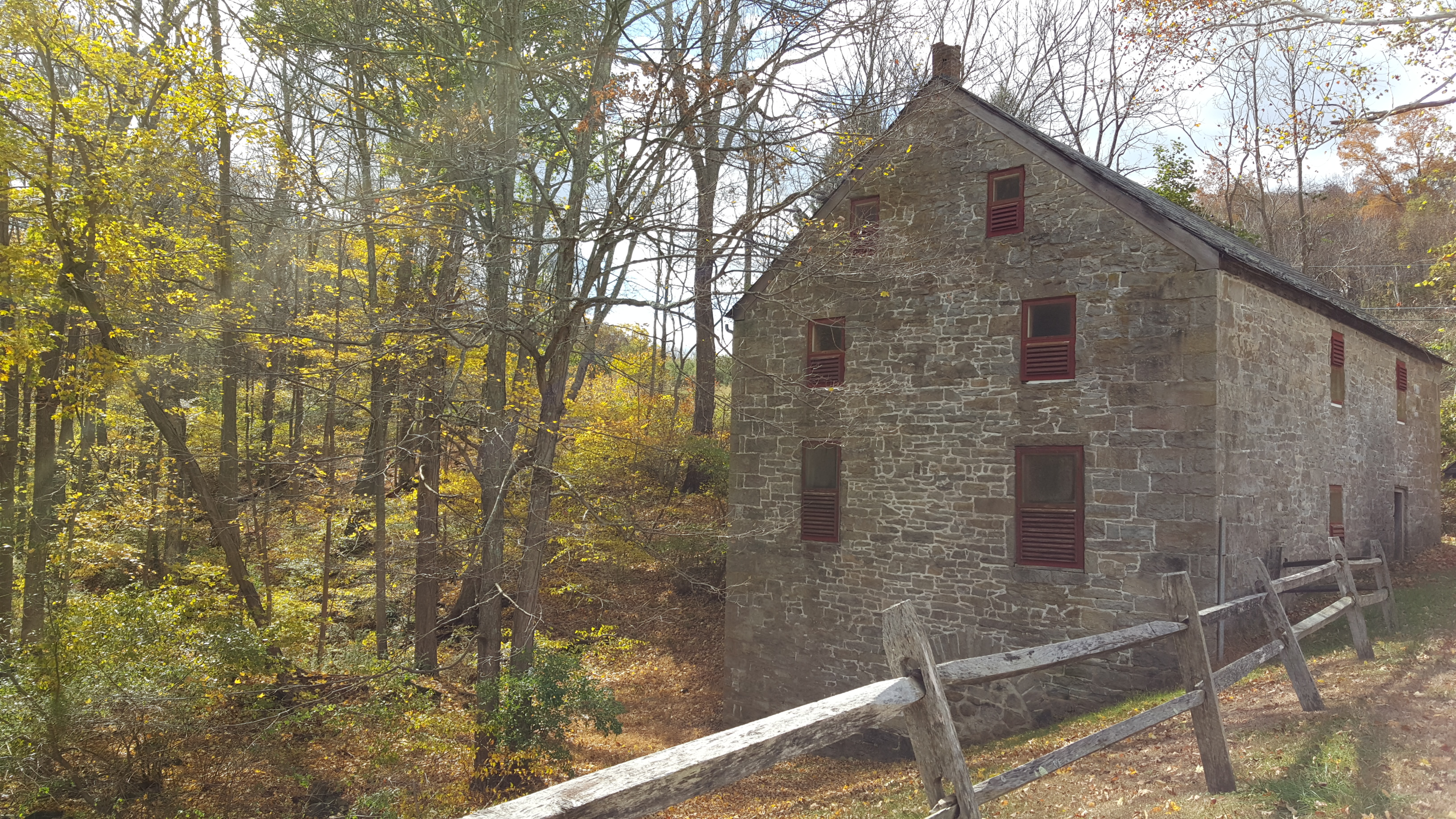 Keen's Grist Mill in Swartswood State Park located on CR521 Stillwater Twsp, Sussex Cty, New Jersey